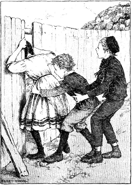 Inger Johanne gets her head stuck in the fence of a chicken yard on St John's Day. From the English version of 'What Happened to Inger Johanne (p.67) by Dikken Zwilgmeyer, translated by Emilie Poulsson and illustrated by Florence Liley Young.